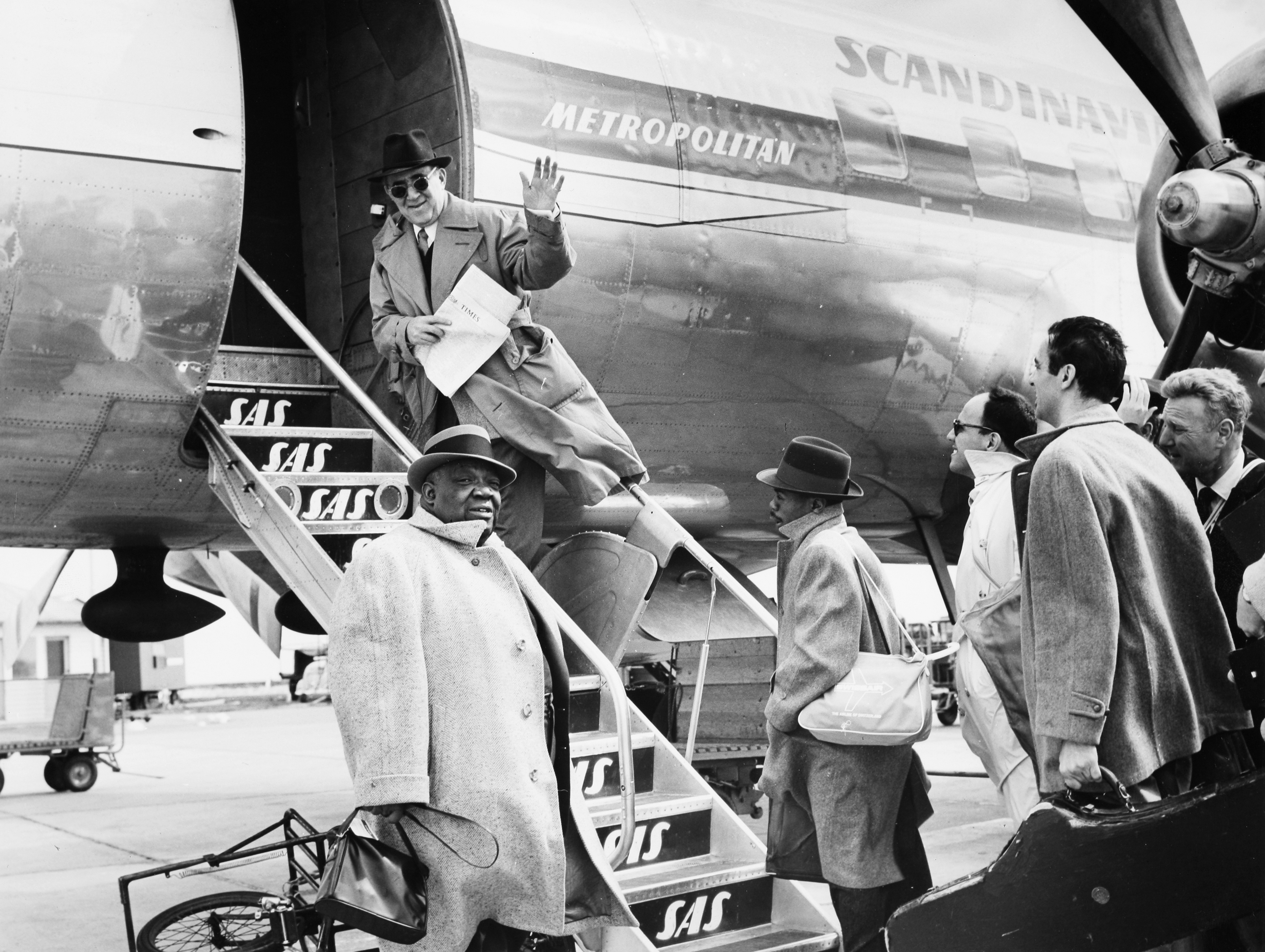 Benny Goodman and his Zazz Orchestra at Kastrup Airport CPH, Copenhagen. Flow a Convair 440 Metropolitan to Oslo.